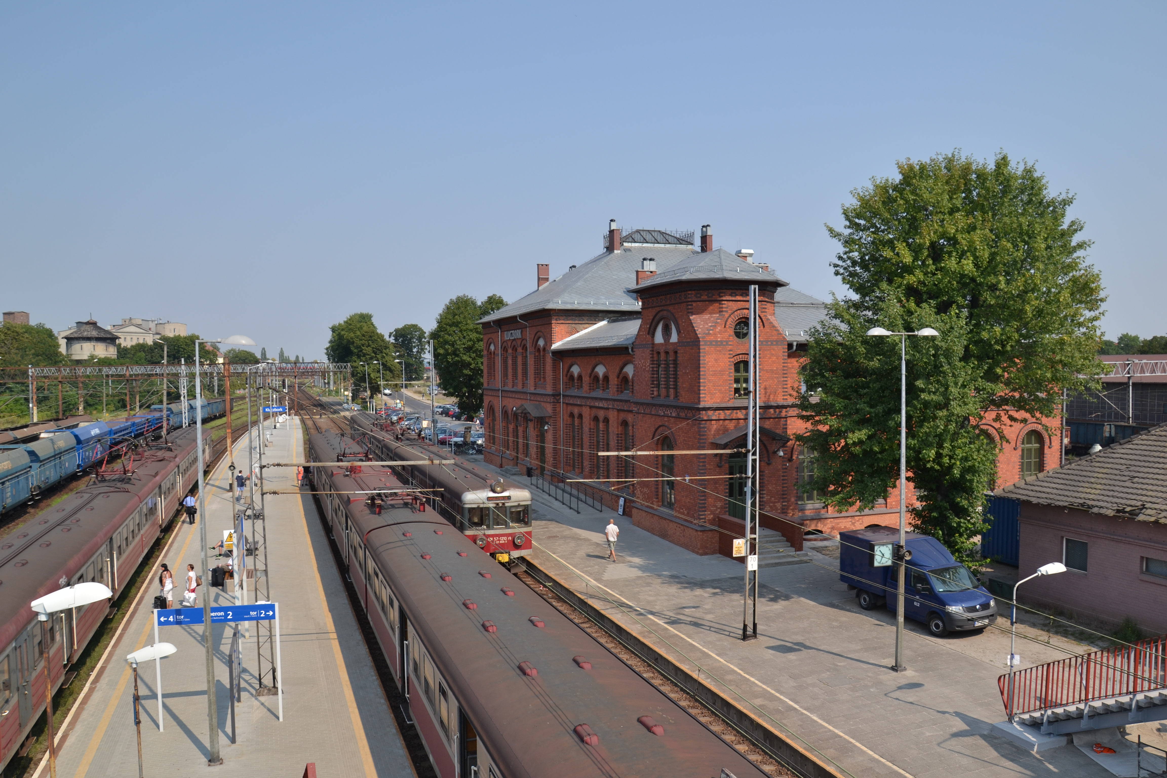 Widok stacji Kluczbork This photo was taken during Railway Wikiexpedition 2015 set up by Wikimedia Polska Association in cooperation with Fundacja Grupy PKP. You can see all photographs in category Wikiekspedycja kolejowa 2015.